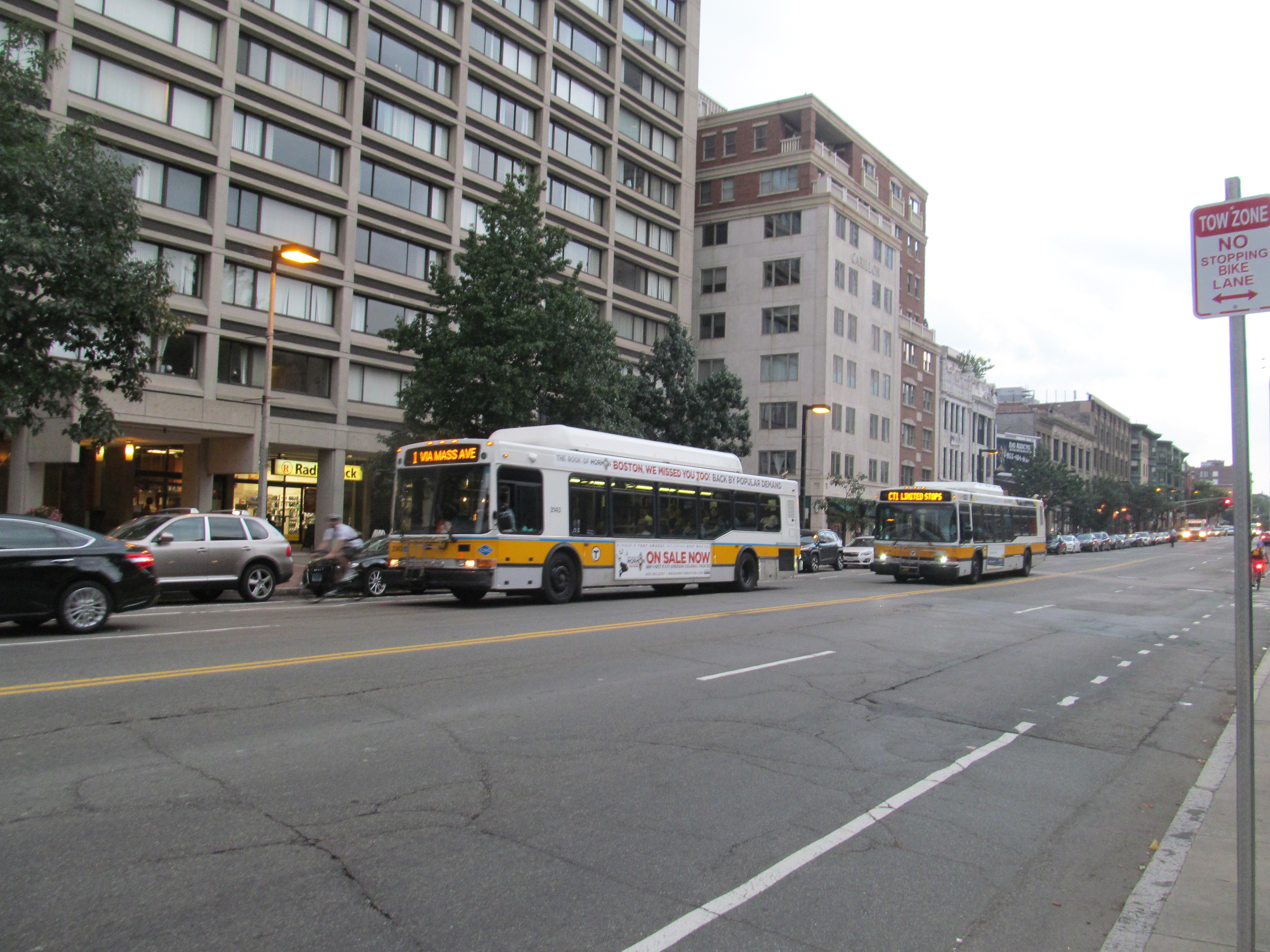 Southbound #1 and CT1 buses on Massachusetts Avenue in August 2015